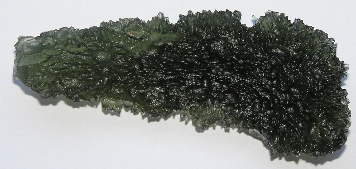 Moldavite